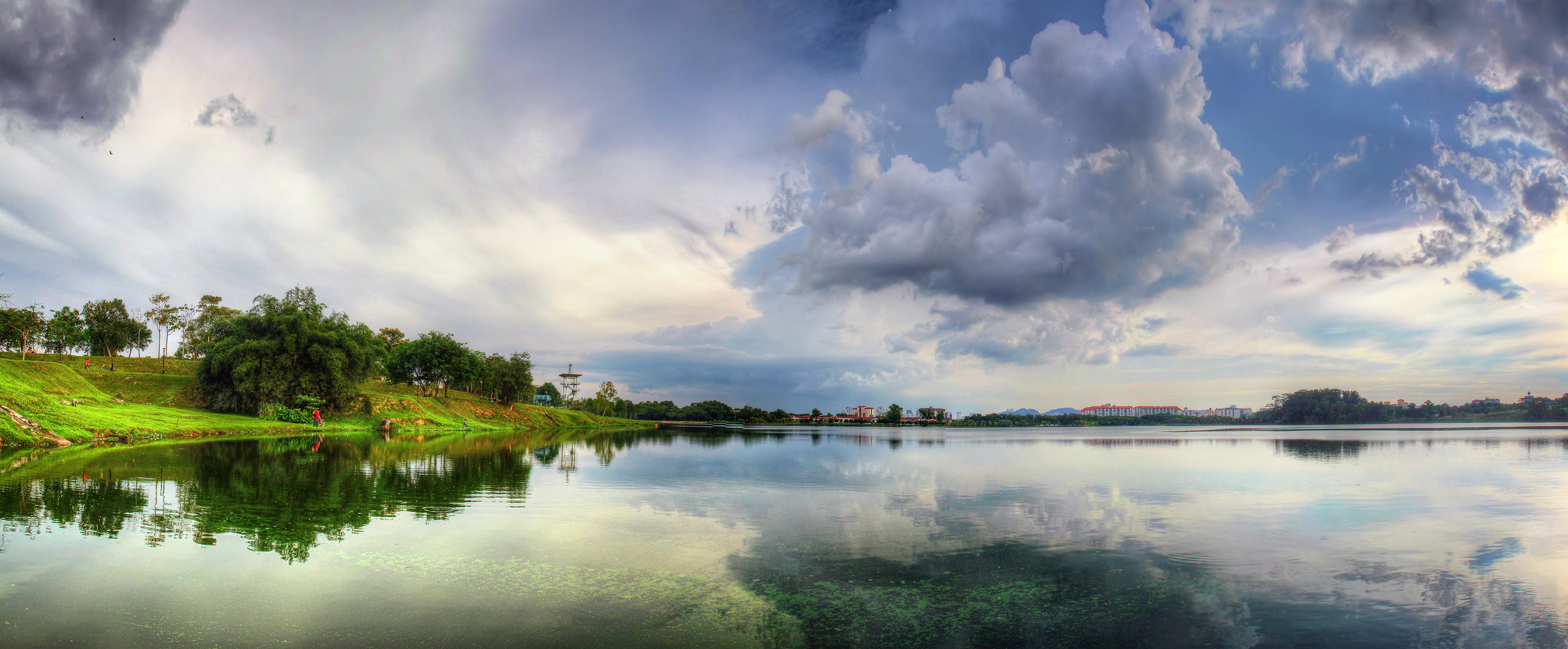 If you are in Klang Valley and have yet to encounter kite flying, take some time off and go for an exciting time with yourfamily to Kepong Metropolitan Park. This park is located at the north of Jinjang and can be easily accessed using MiddleRing Road 2 (MRR2). The first phase of this park was opened in the year 2001 and the second phase is now opened to thepublic with more amenities for the public to use. This 95 hectares park is a vast area that consists of a 57 hectares lake where anglers will be glad to know that they are allowed to fish here